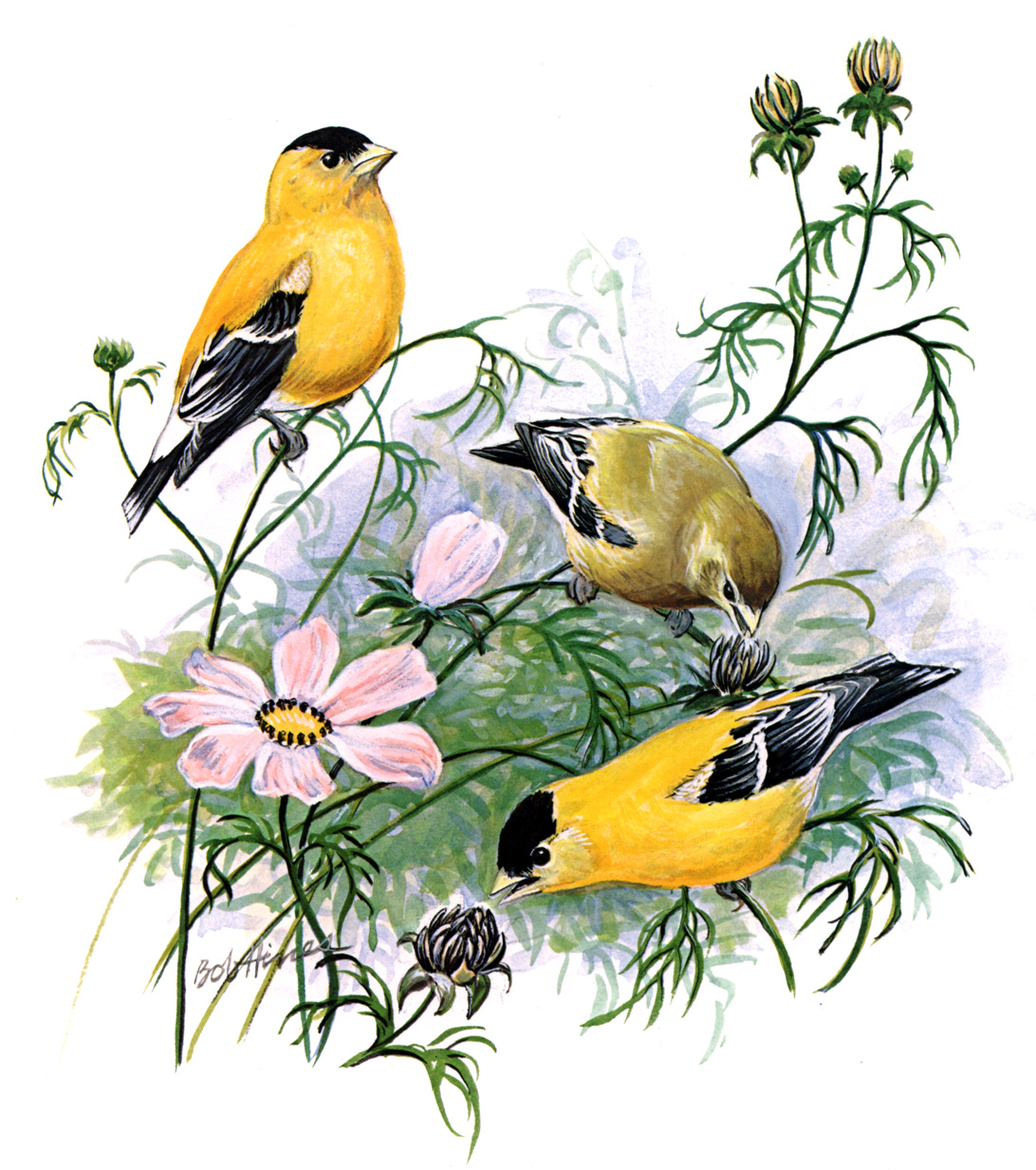 American Goldfinch , Carduelis tristis, Offset reproduction of acrylic painting.